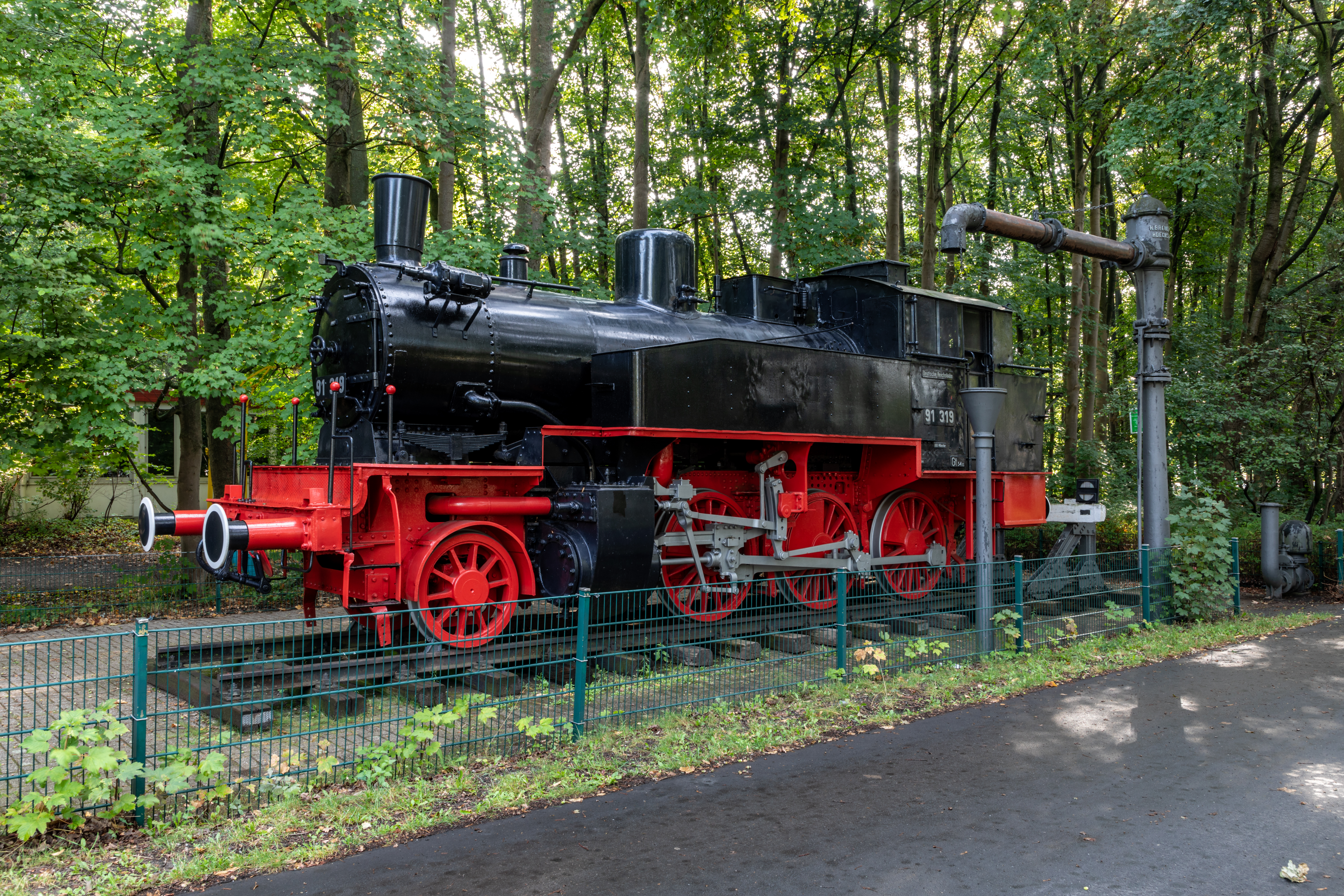 Pängelanton in Gremmendorf, Münster, North Rhine-Westphalia, Germany